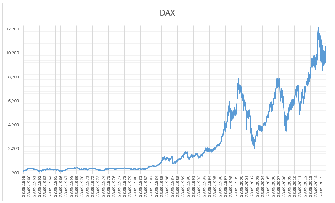 DAX from September 1959 to August 2016 (daily closings)